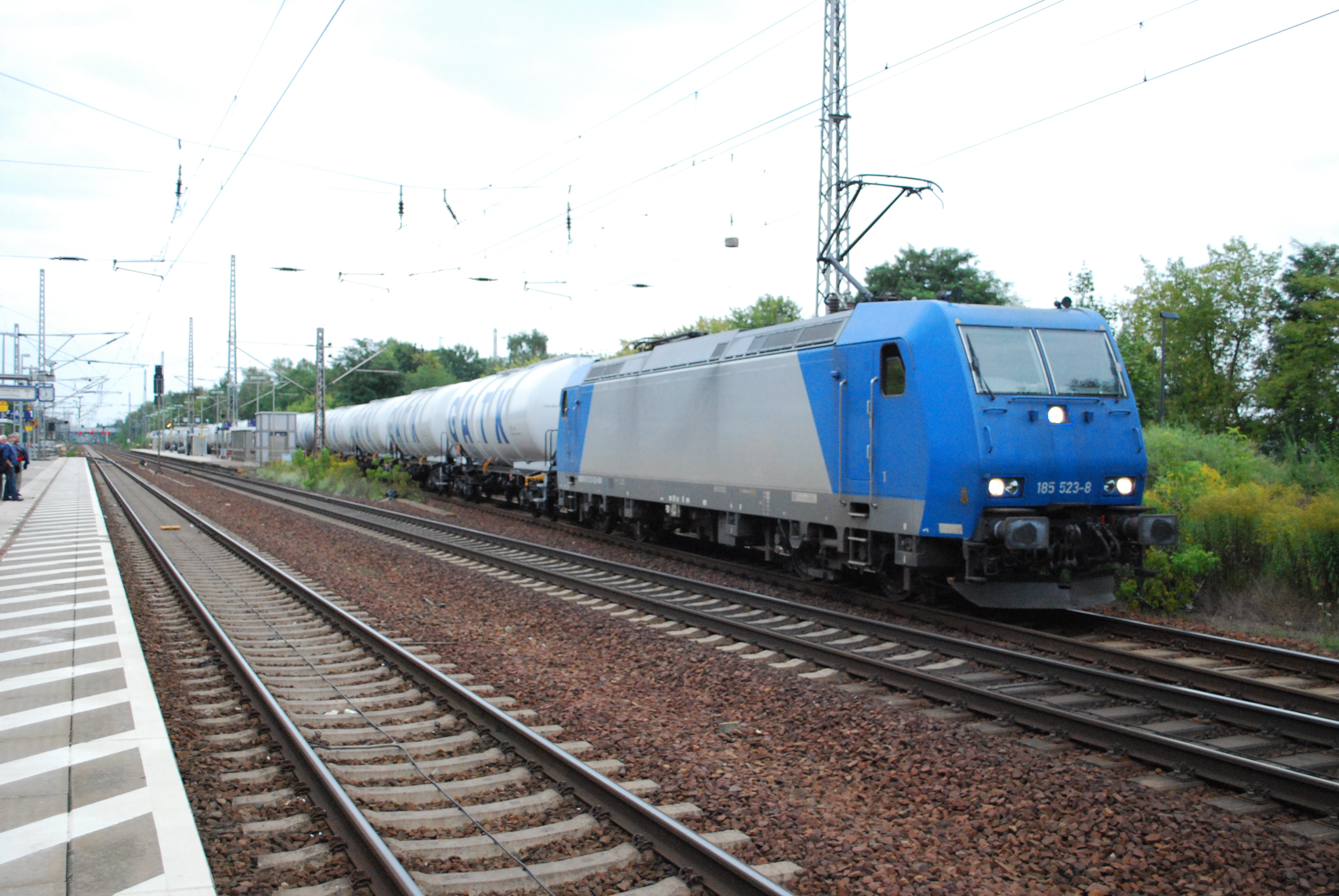 Locomotive no.185 523 by Alpha Trains, operated by HGK passing through Ludwigsfelde on a tanker train, 09/12. It is a Bombardier type TRAXX F140 AC: 15kV ac overhead, 7,500hp, Bo-Bo.